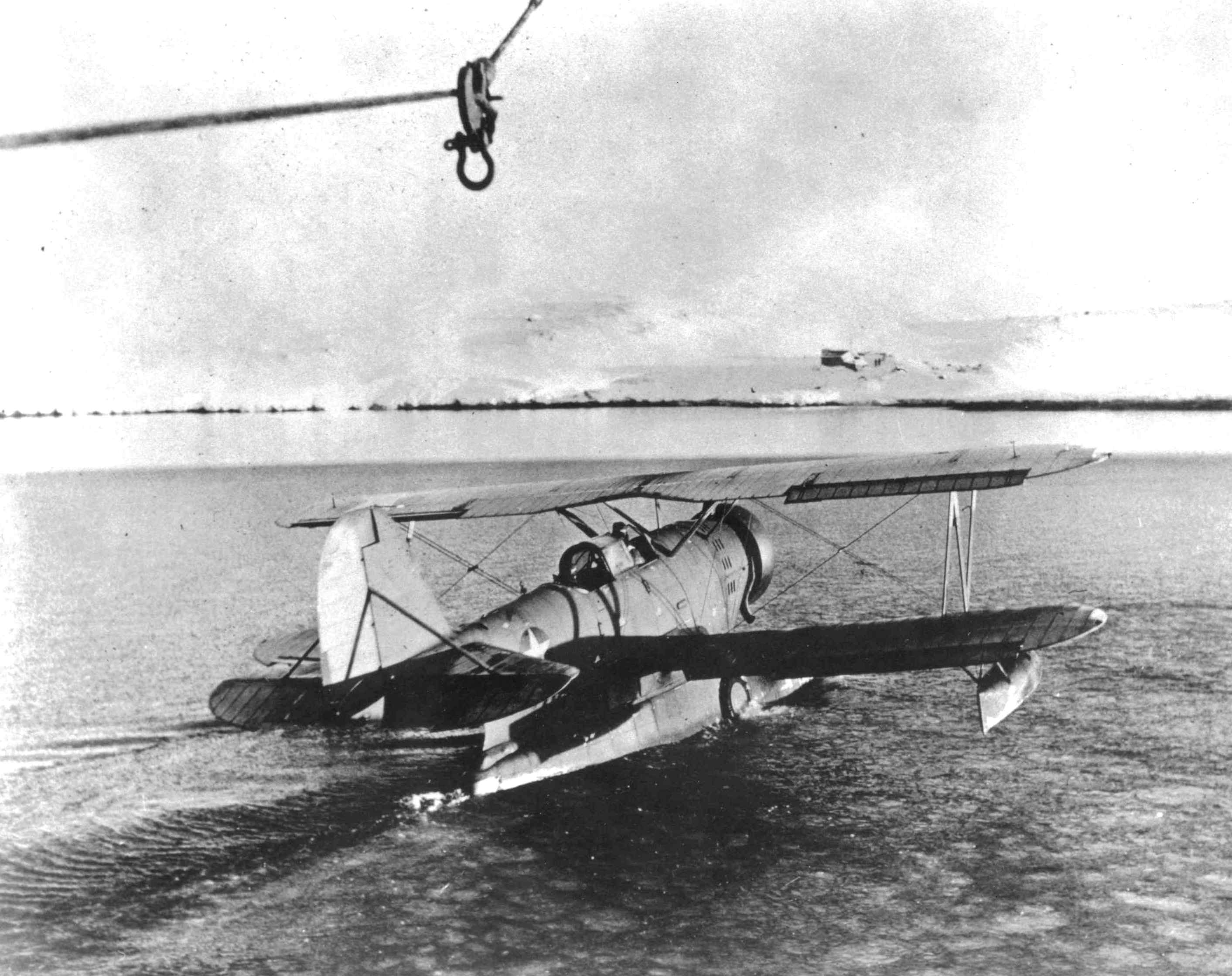 Grumman J2F-4 (Tail Number 1640), lost over Greenland, rescuing USAAF flyers